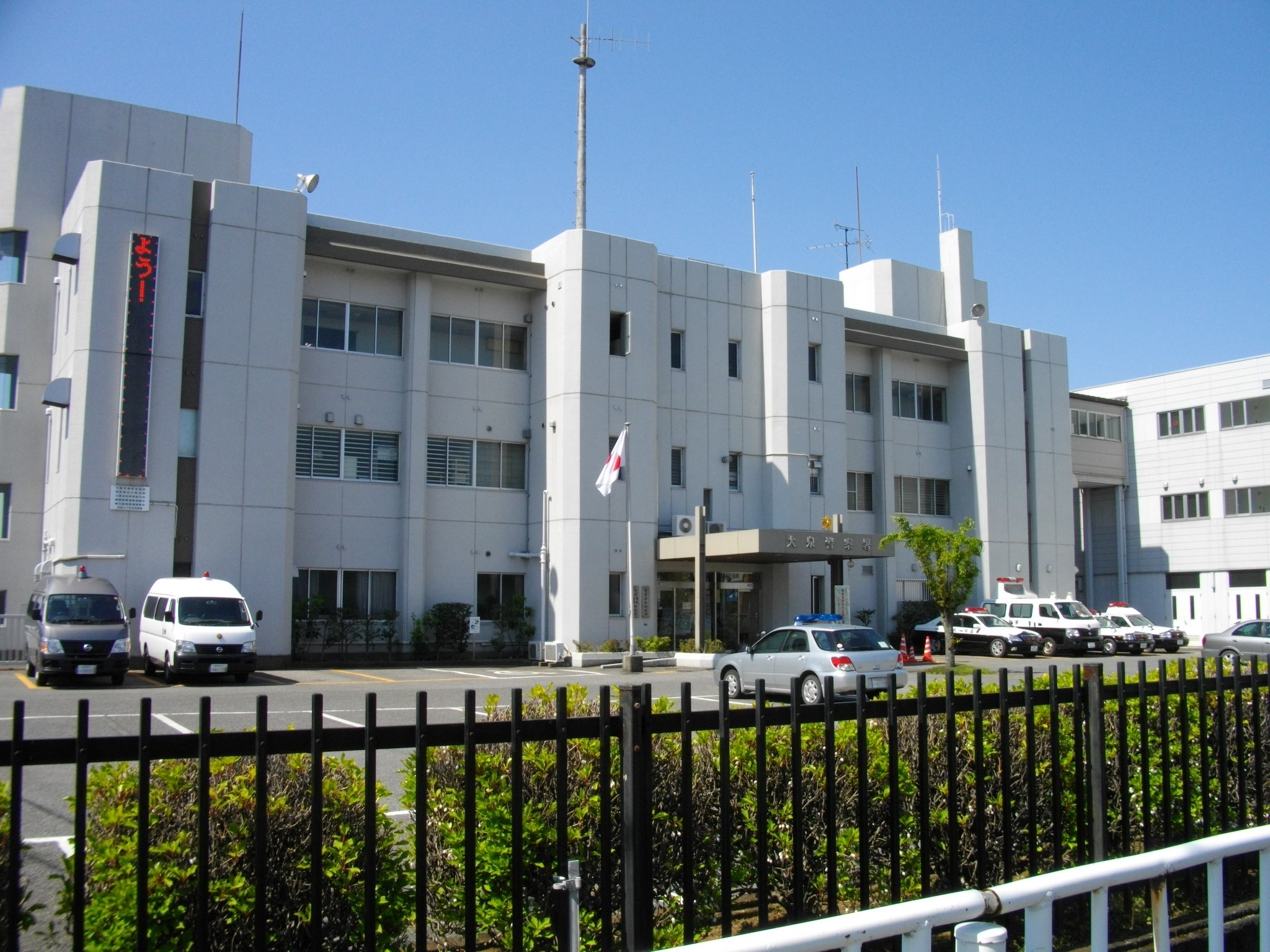 Oizumi Police Station